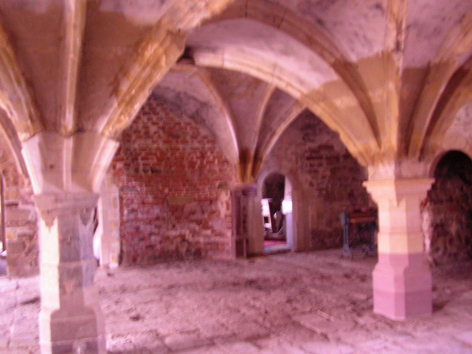 Underground vault of the new castle at Heringen/Helme, October 2008 photograph by Gerhard Hund.